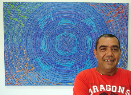 Les Murdoch standing before his dolphin Dreaming Painting in the Bowraville Art Gallery 2005